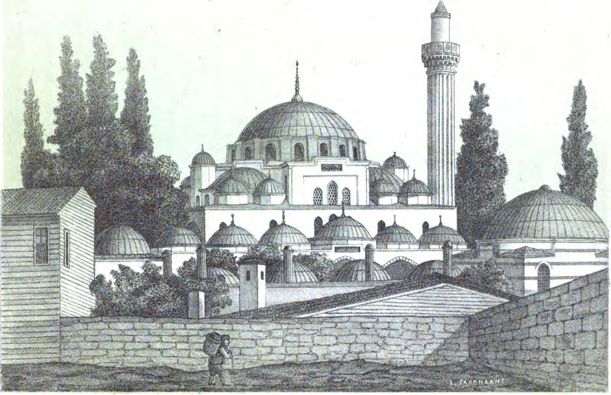 Byzantinai meletai topographikai (1877) Author: Paspatēs, Alexandros Geōrgiou, 1814-1891. [from old catalog] Subject: Inscriptions, Greek Year: 1877 Possible copyright status: NOT_IN_COPYRIGHT Language: English Digitizing sponsor: Google Book contributor: Oxford University Collection: europeanlibraries